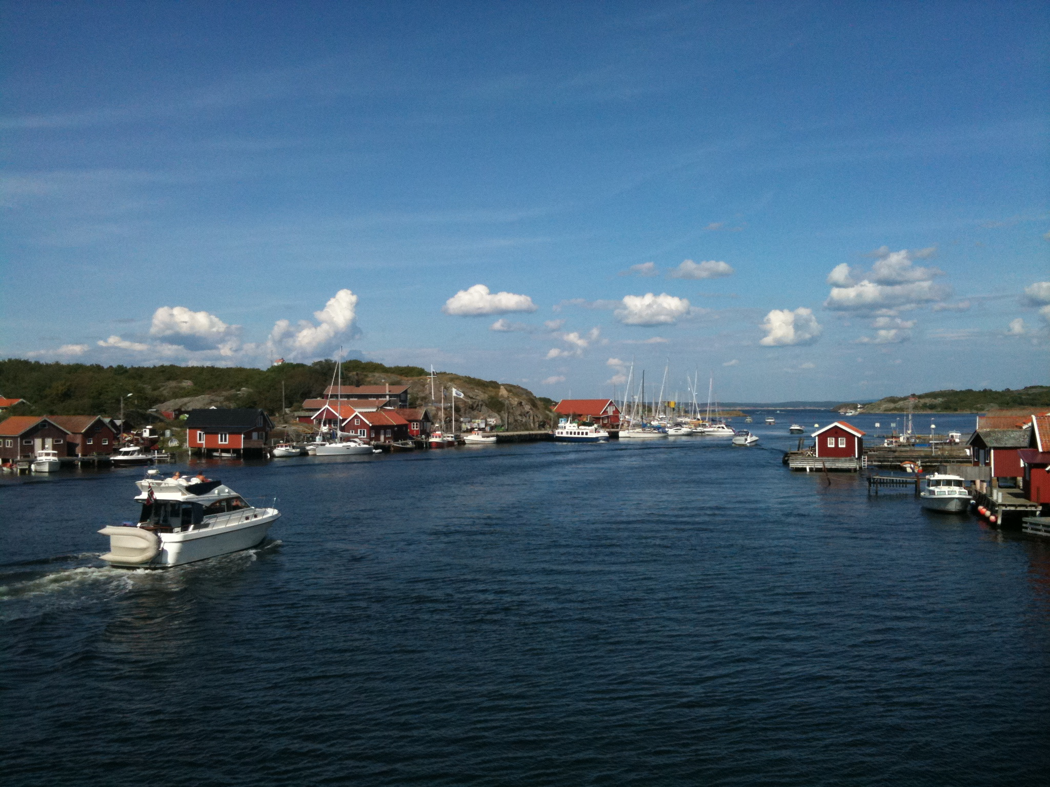 Kostersundet, with Nordkoster to the left and Sydkoster to the right.